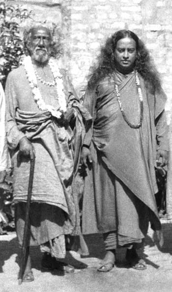 From Public Domain version of Autobiography of a Yogi, at